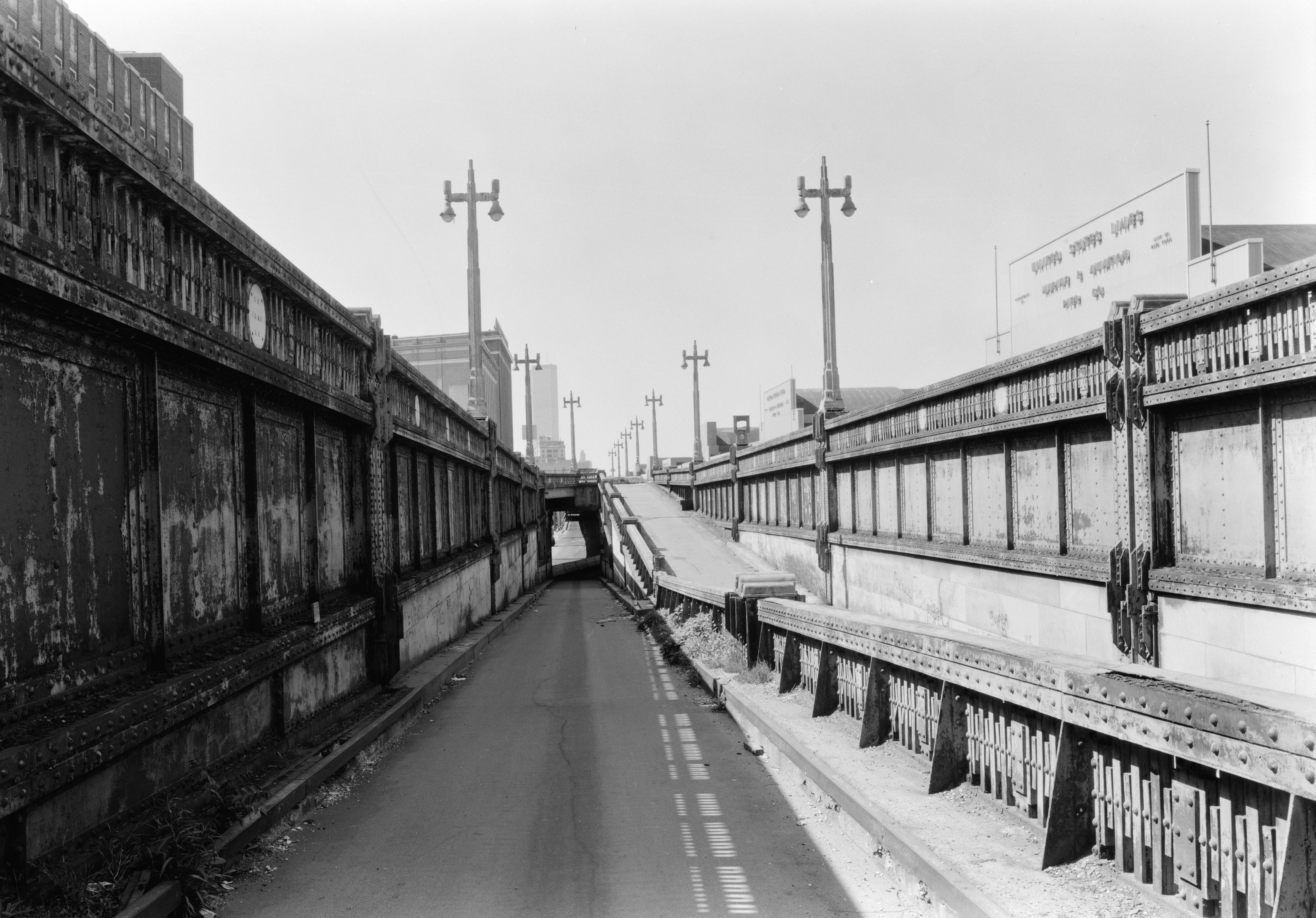 West Side Highway, ramps at 23rd St. looking S.